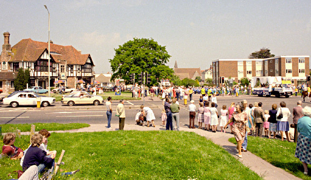 Polegate crossroads and carnival procession 2. Looking north-east towards Polegate High Street. The building on the left is the ‘Horse and Groom’ pub. The carnival procession has caused the police to close the busy main road through to Eastbourne which runs from left to right in the picture. July 1985.